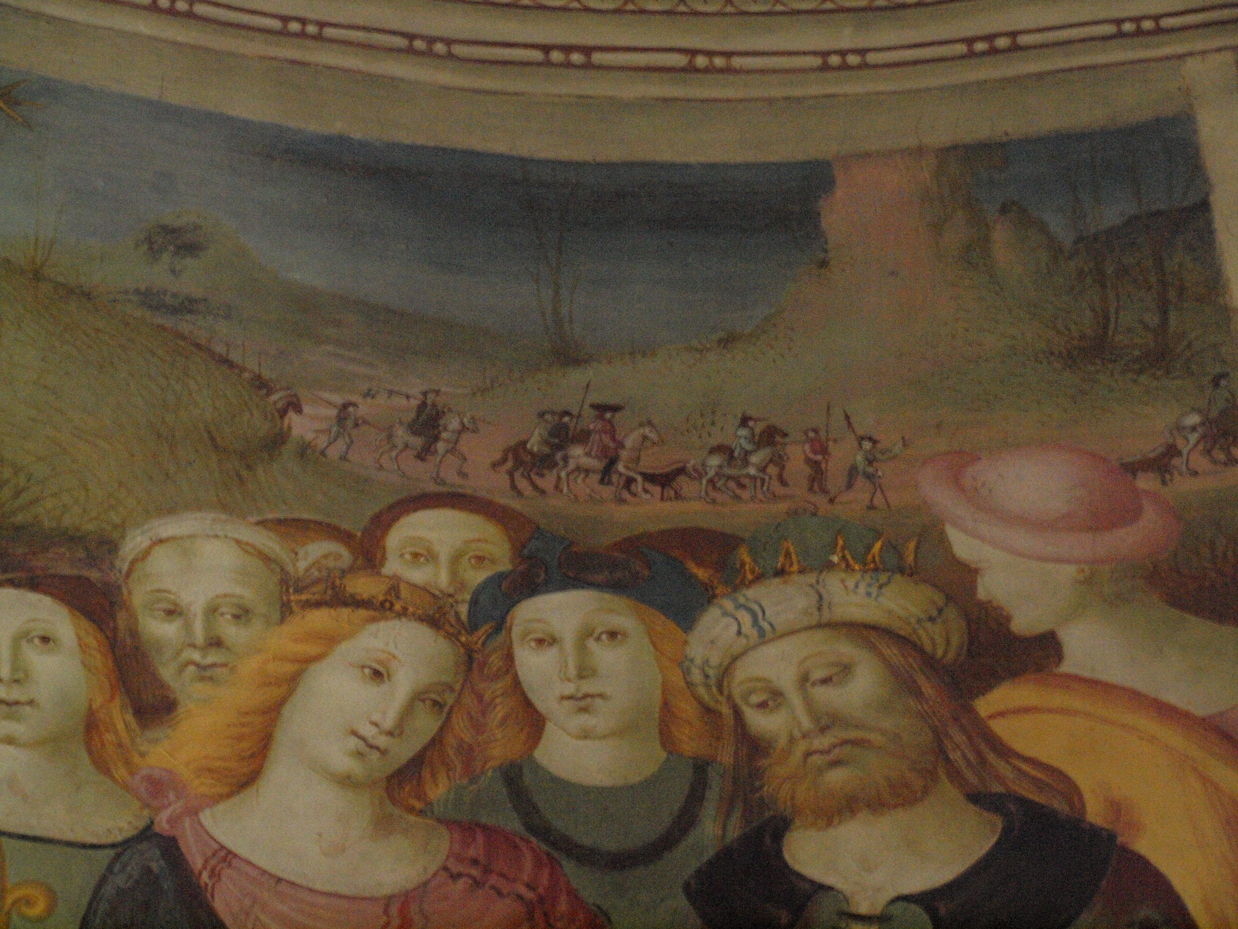 The Adoration of the Magi